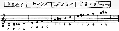 The notation used in Musica enchiriadis, a theoretical text from the 9th century. The scale comprises four tetrachords. The symbols indicating the notes are rotated and mirrored depending on the tetrachords. A modern transcription of the notes is below.